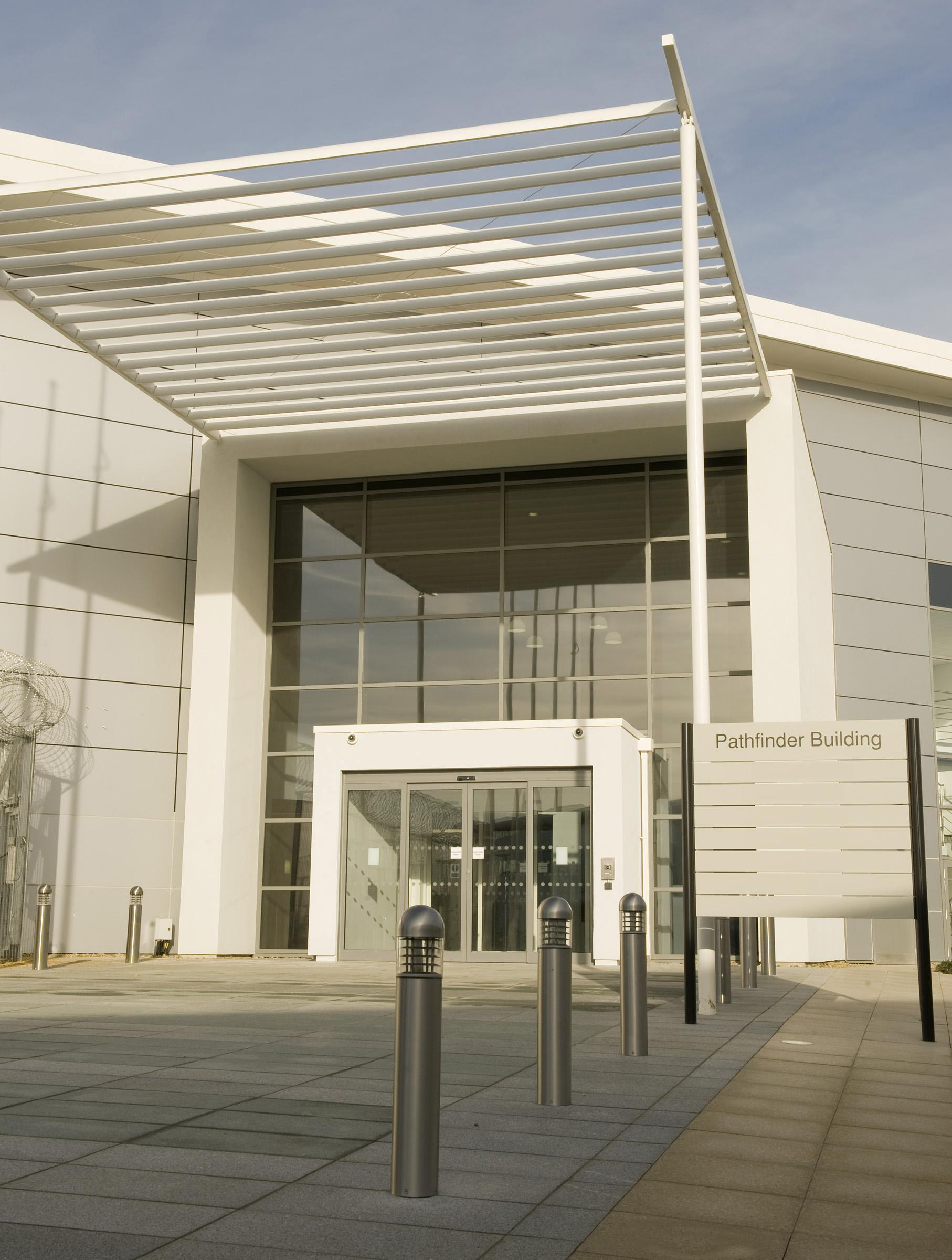 Front entrance to Pathfinder Building, RAF Wyton, Defence Geospatial Intelligence Fusion Centre